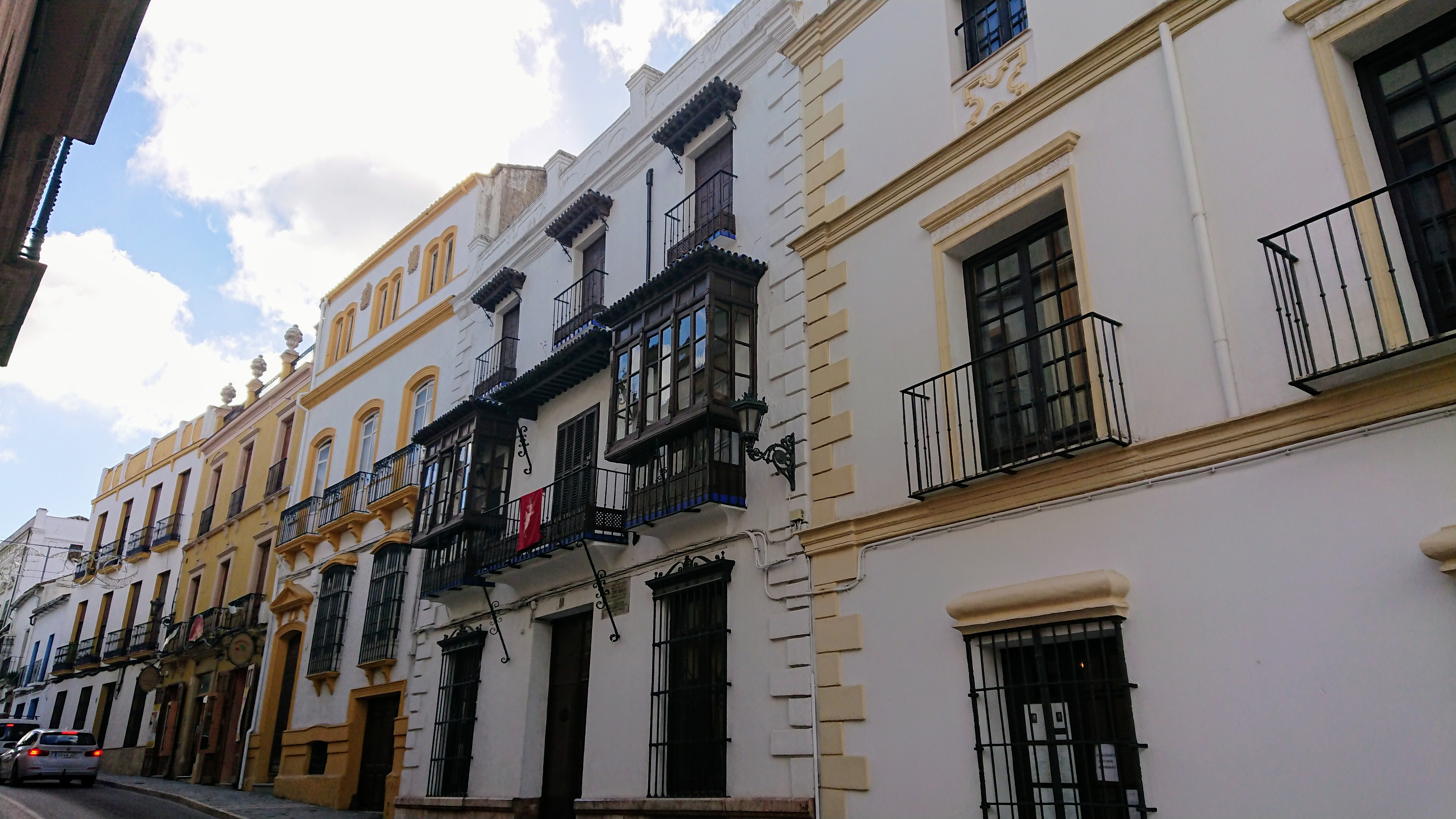 Typical architecture, Ronda, Spain